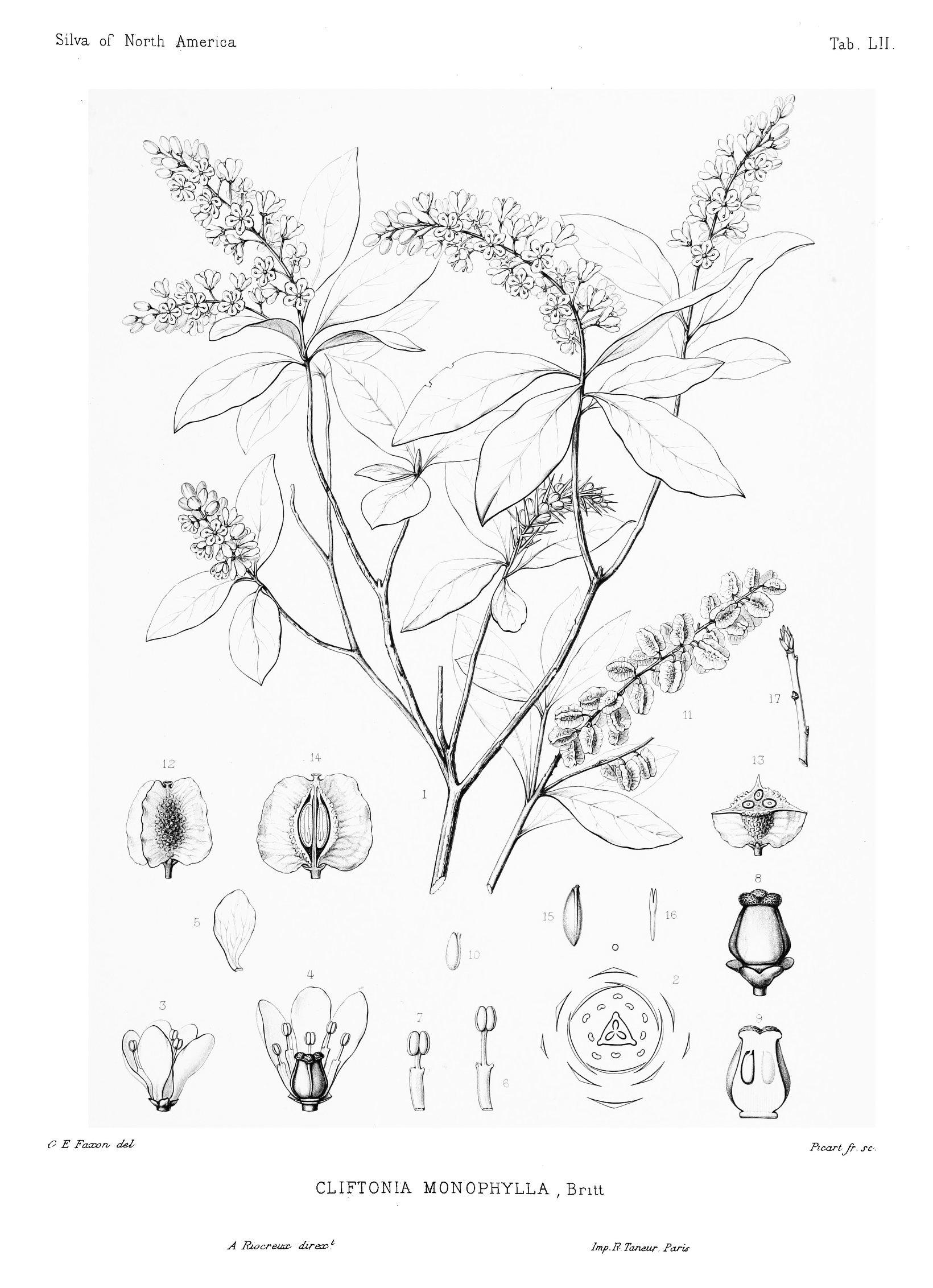 Illustration of Cliftonia monophylla